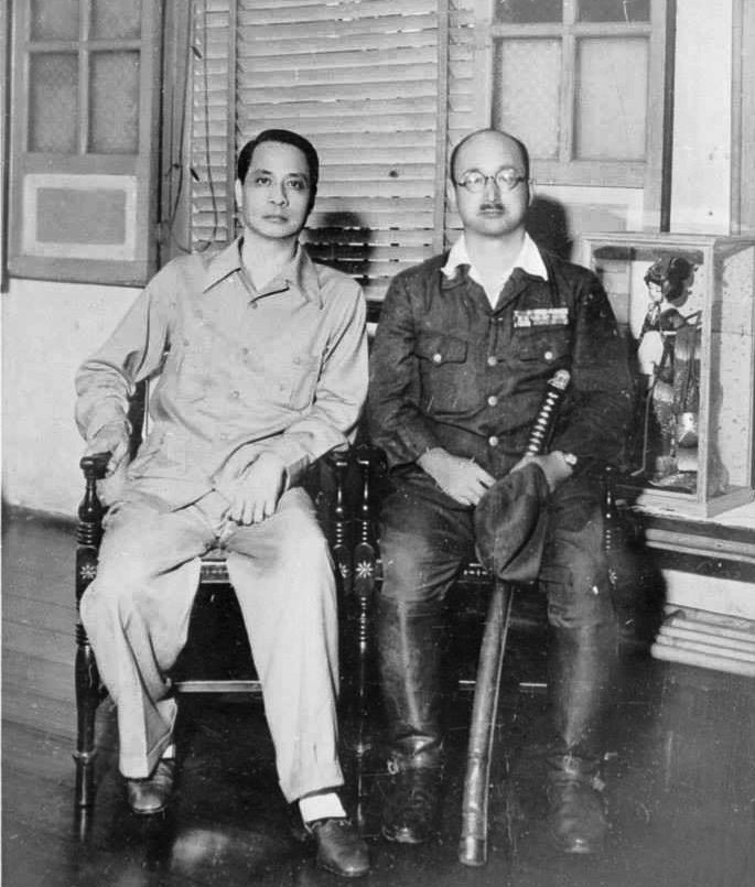 Manuel Roxas and his Japanese friend Nobuhiko Jimbo（神保 信彦）